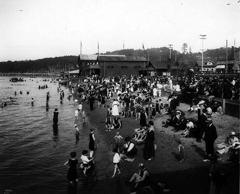 Alki bathing beach, West Seattle, n.d. Photographer: Curtis, Asahel Subjects (LCSH): Alki Point (Wash.) Digital Collection: Asahel Curtis Photographs Item Number: CUR1330 Persistent URL: Visit Special Collections page for information on ordering a copy. University of Washington Libraries. Digital Collections